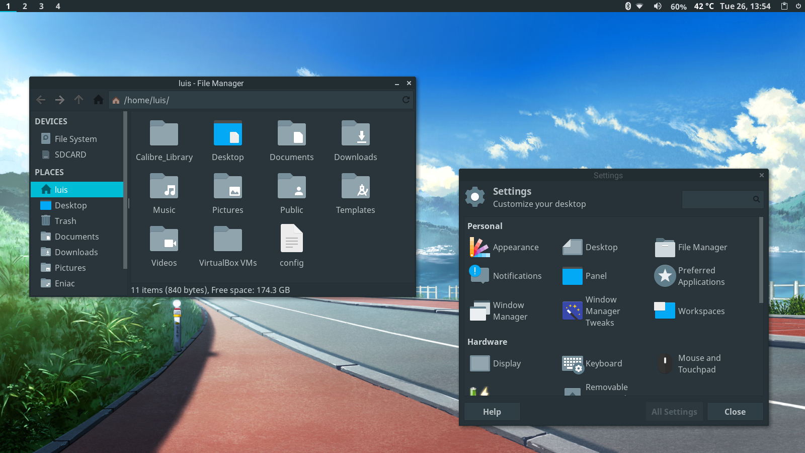 Screenshot of a slightly customized Xfce 4.12 desktop. The theme being used is Adapta Nokto Eta, the icon theme is Paper and the font is Noto Sans. Programs shown: 1) Thunar File Manager 2) Settings Manager